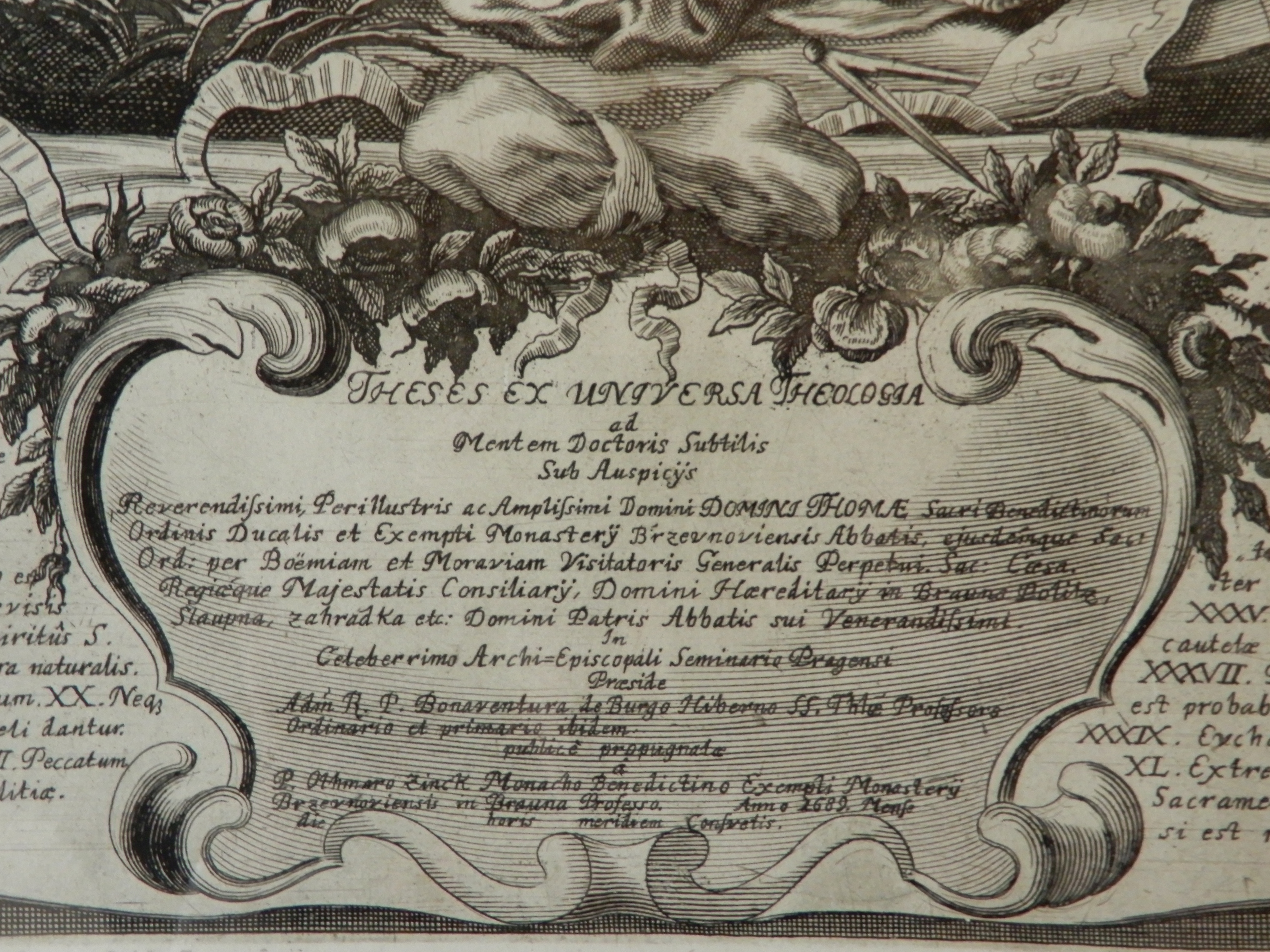 Paregron of the University Theses of the Abbot Thomas Sartorius od the Abbey Břevnov, Prague, Czech lands